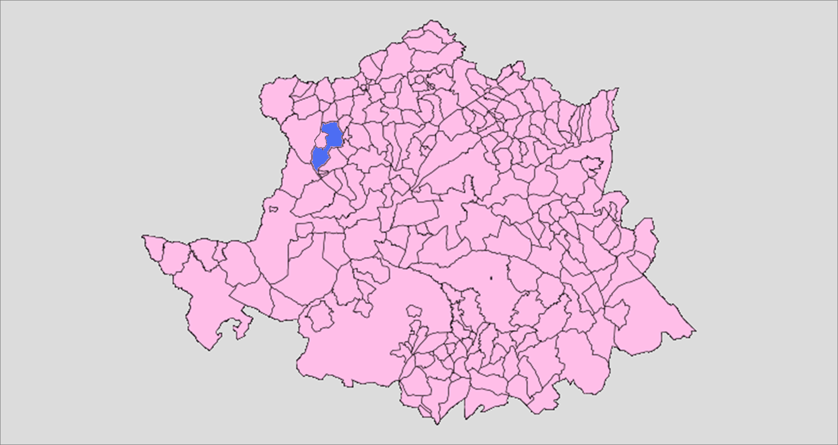 Moraleja